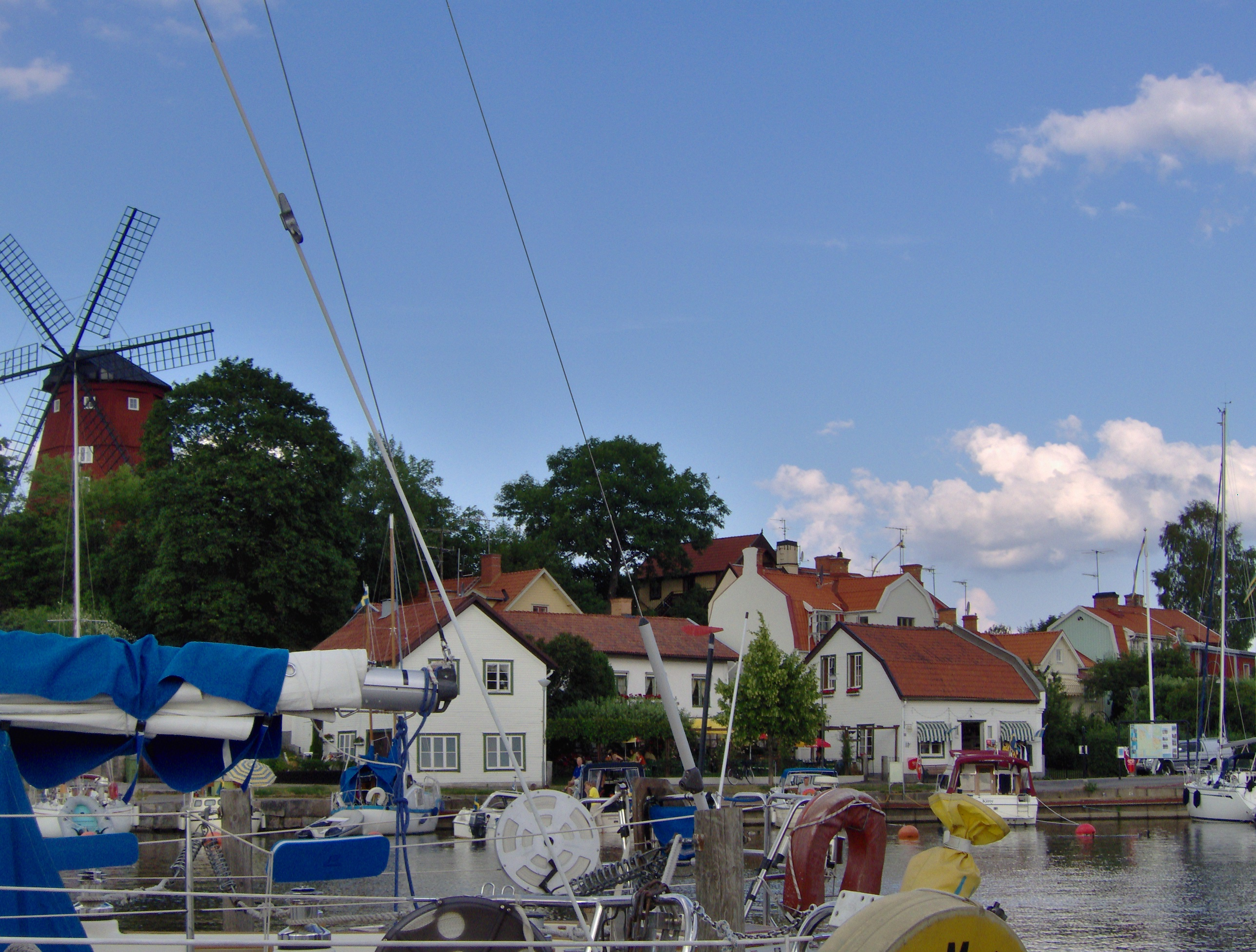 Strängnäs harbour and windmill, photographed by me Summer 2006.